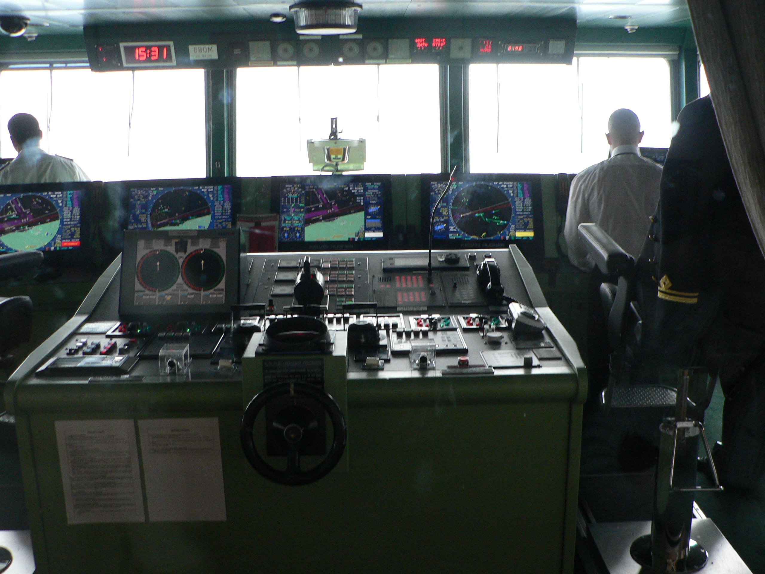 Bridge of the Queen Mary 2